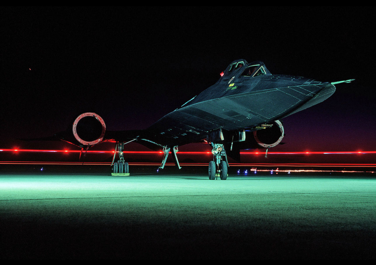 An SR-71B Blackbird sits on the runway after sundown. (Courtesy photo/9th Reconnaissance Wing)